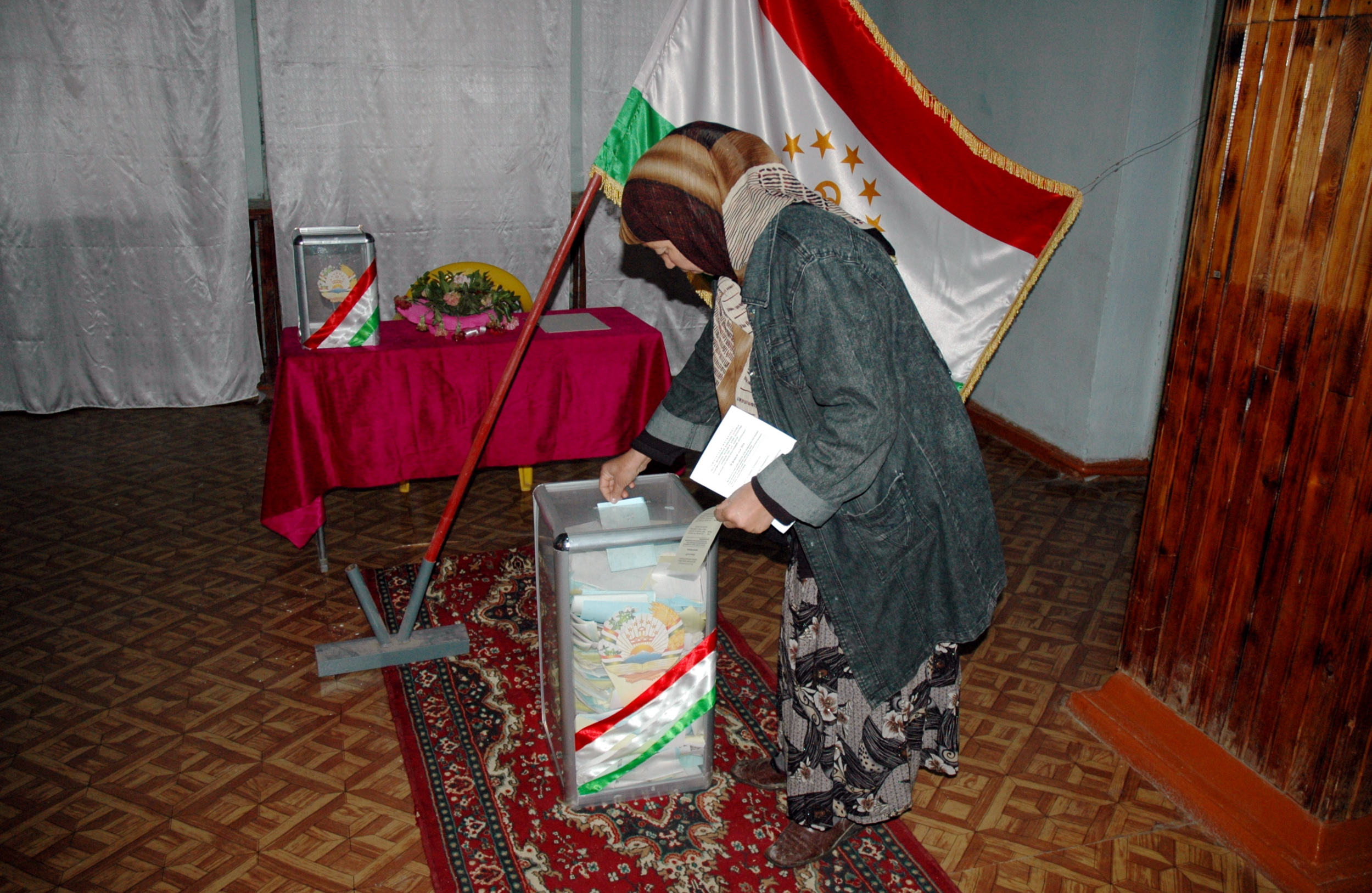 Voting at the polling station of PEC No. 4 of DEC No. 26 during the 2010 Tajikistani parliamentary election (Qurghonteppa, Khatlon region, Tajikstan)